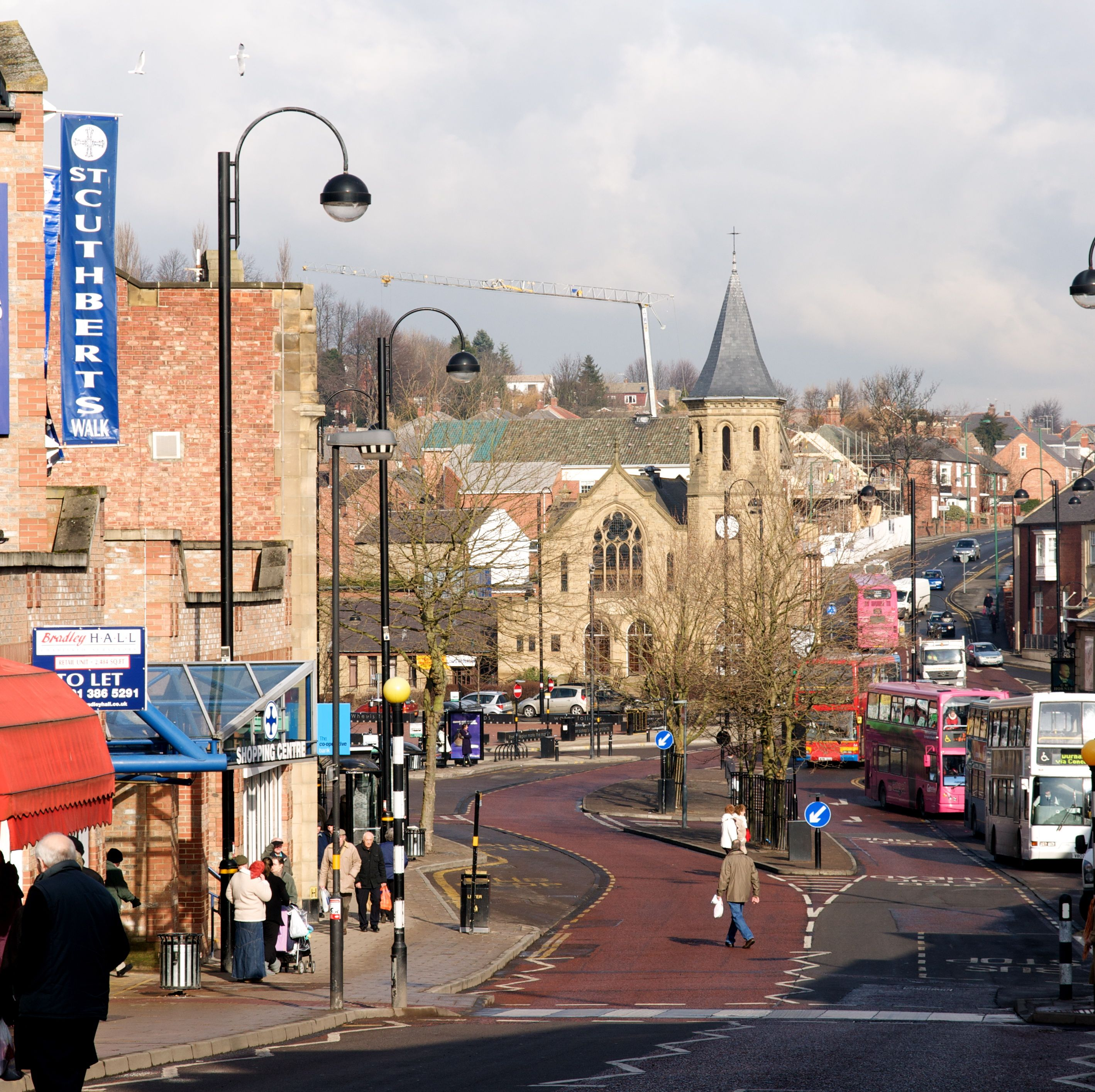 Chester-le-Street looking north along Front Street